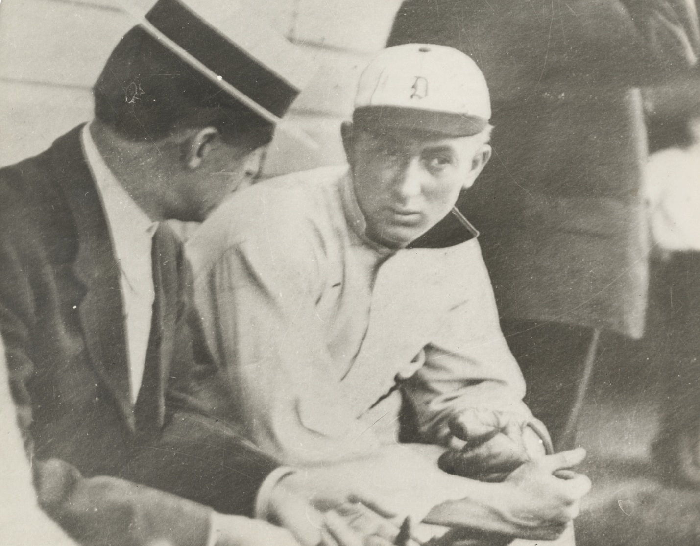 Professional baseball player Ty Cobb during his rookie season with the Detroit Tigers. Note: Photograph of Ty Cobb, baseball player for the Detroit Tigers 1st day he played at Detroit, seated on bench with manager Bill Armour. Detroit Public Library Digital Collection.